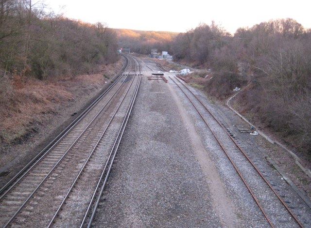 Tilgate Forest: London to Brighton railway (2) For a brief history of the railway and a view in the opposite direction please see 1752096. As the track curves to the left to enter Balcombe Tunnel this was the location of the junction where the four tracks from London merged into two to negate the construction of a costly second tunnel. A red signal light for southbound trains to Brighton is visible in the distance, while the last rays of winter sunshine catch the trees on the hill on the horizon.